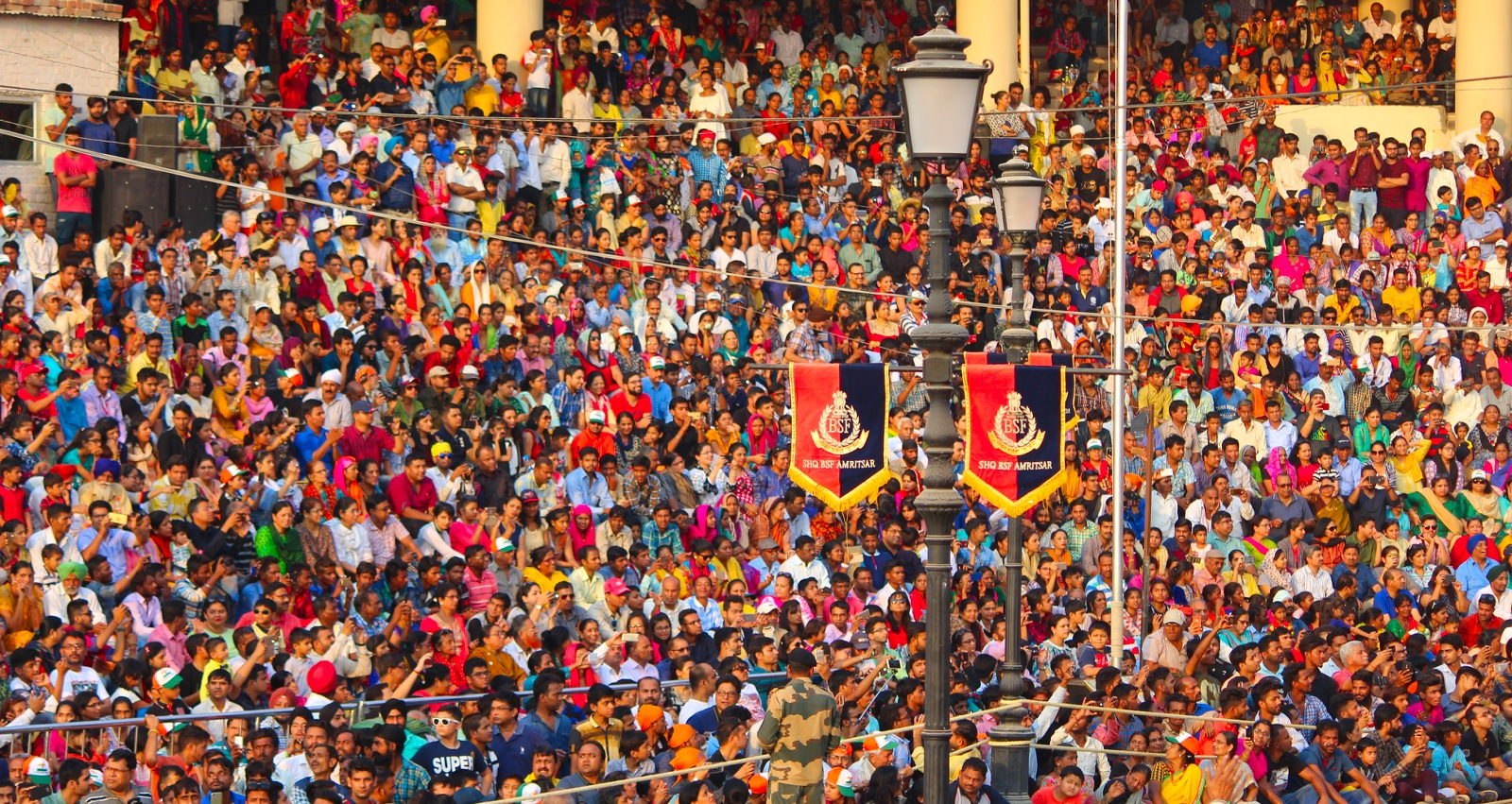 Photo of Public watching Flag Ceremony at Wagah Border